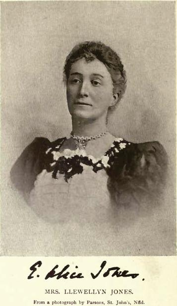 Mrs Elizabeth Alice Jones by Parsons, St. John's, Nfld